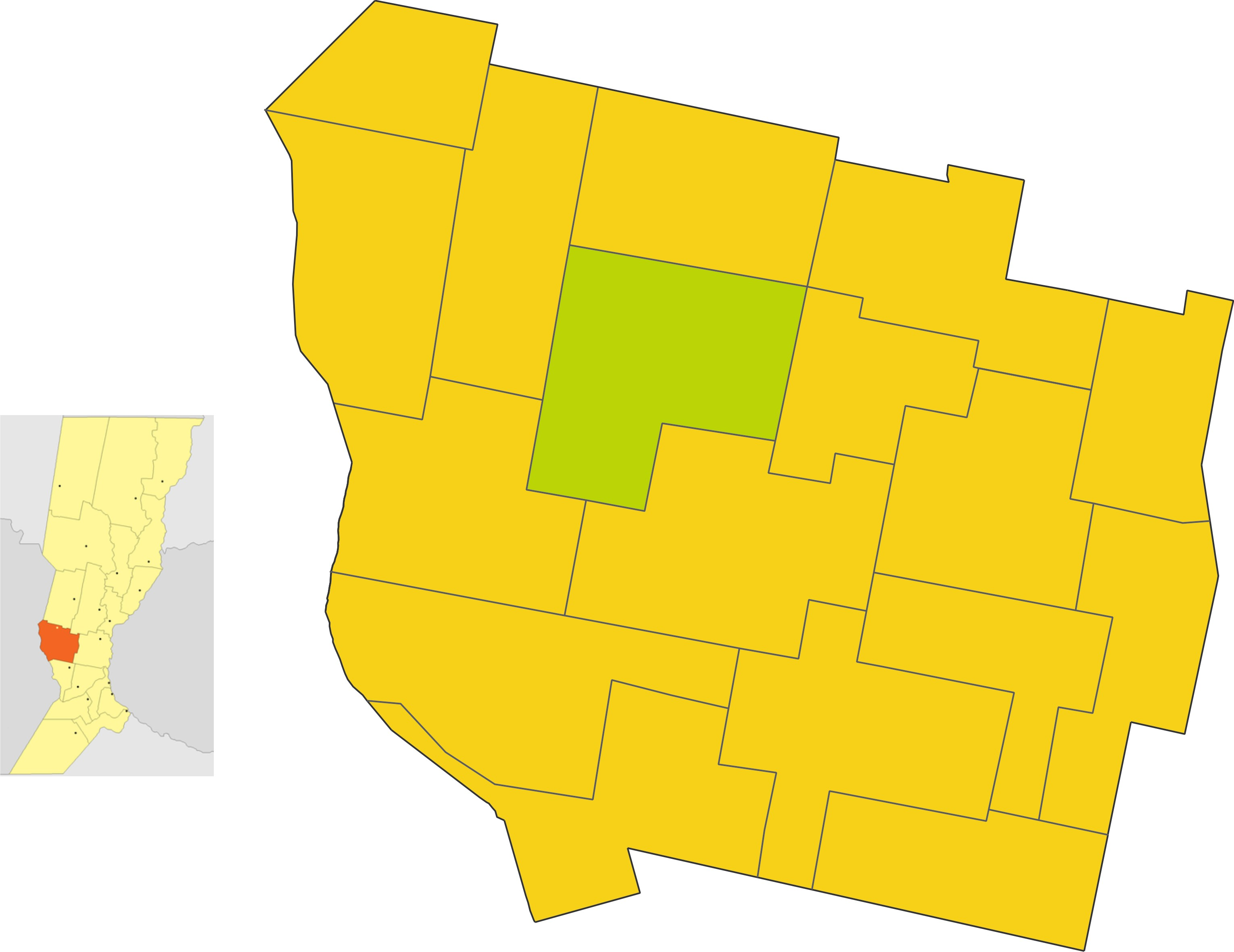 Map of the municipio de San Jorge in San Martin department, Santa Fe province, Argentina